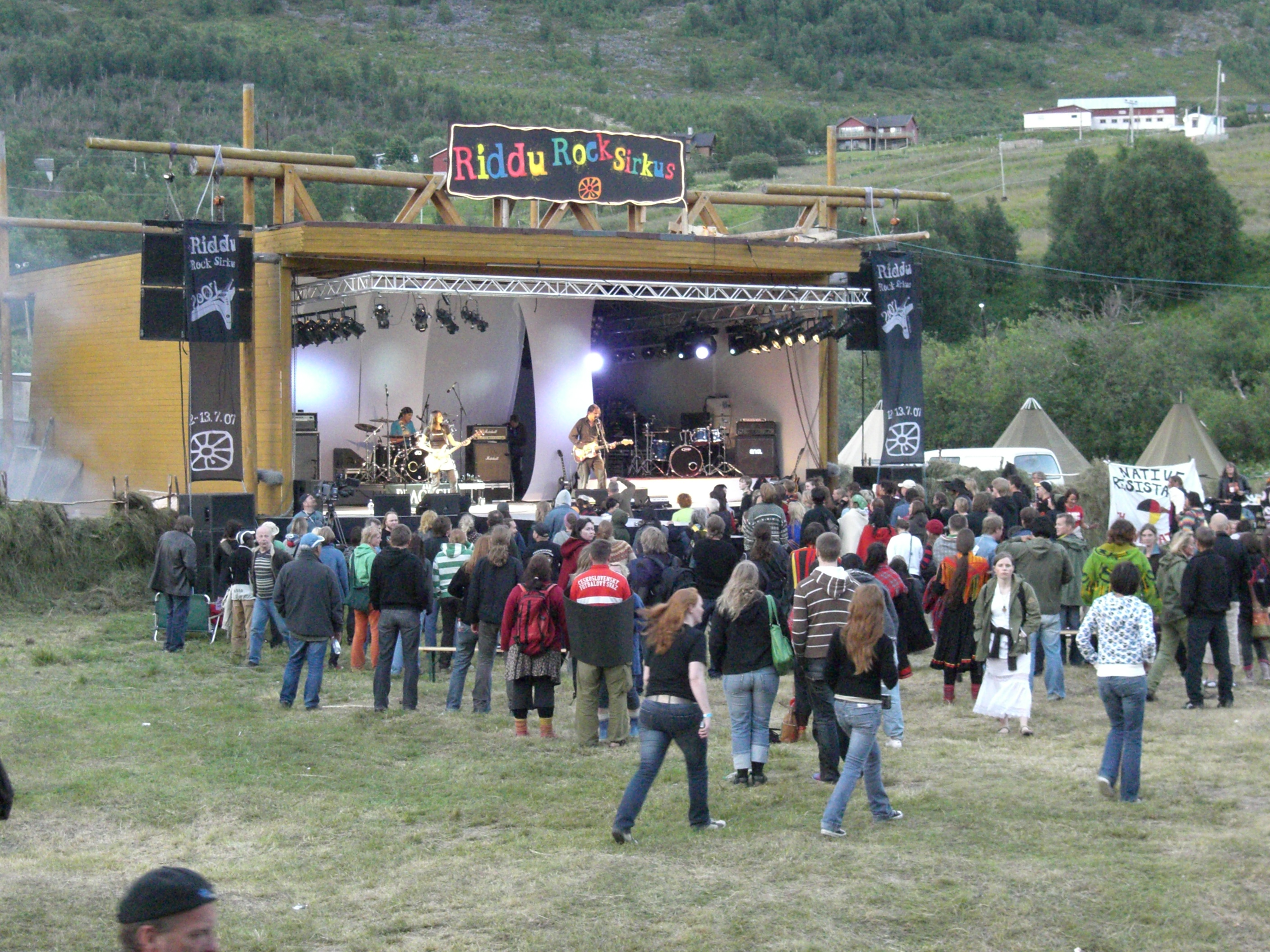 Festival of Riddu Riđđu of natural cultures in Norway, 2007